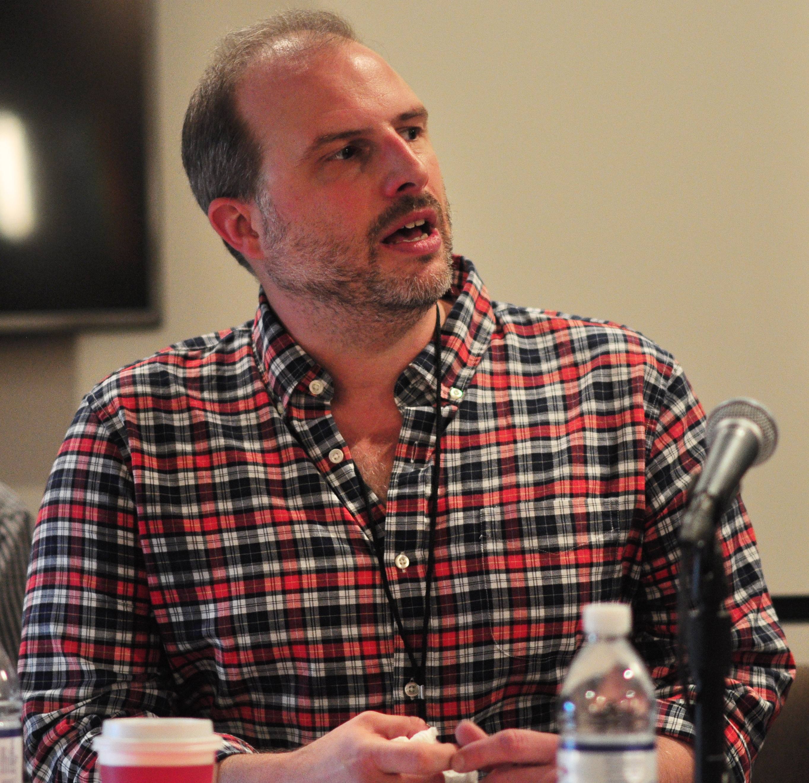 Stephen Thomas Erlewine at the 2017 Pop Conference, MoPOP, Seattle, Washington, U.S.